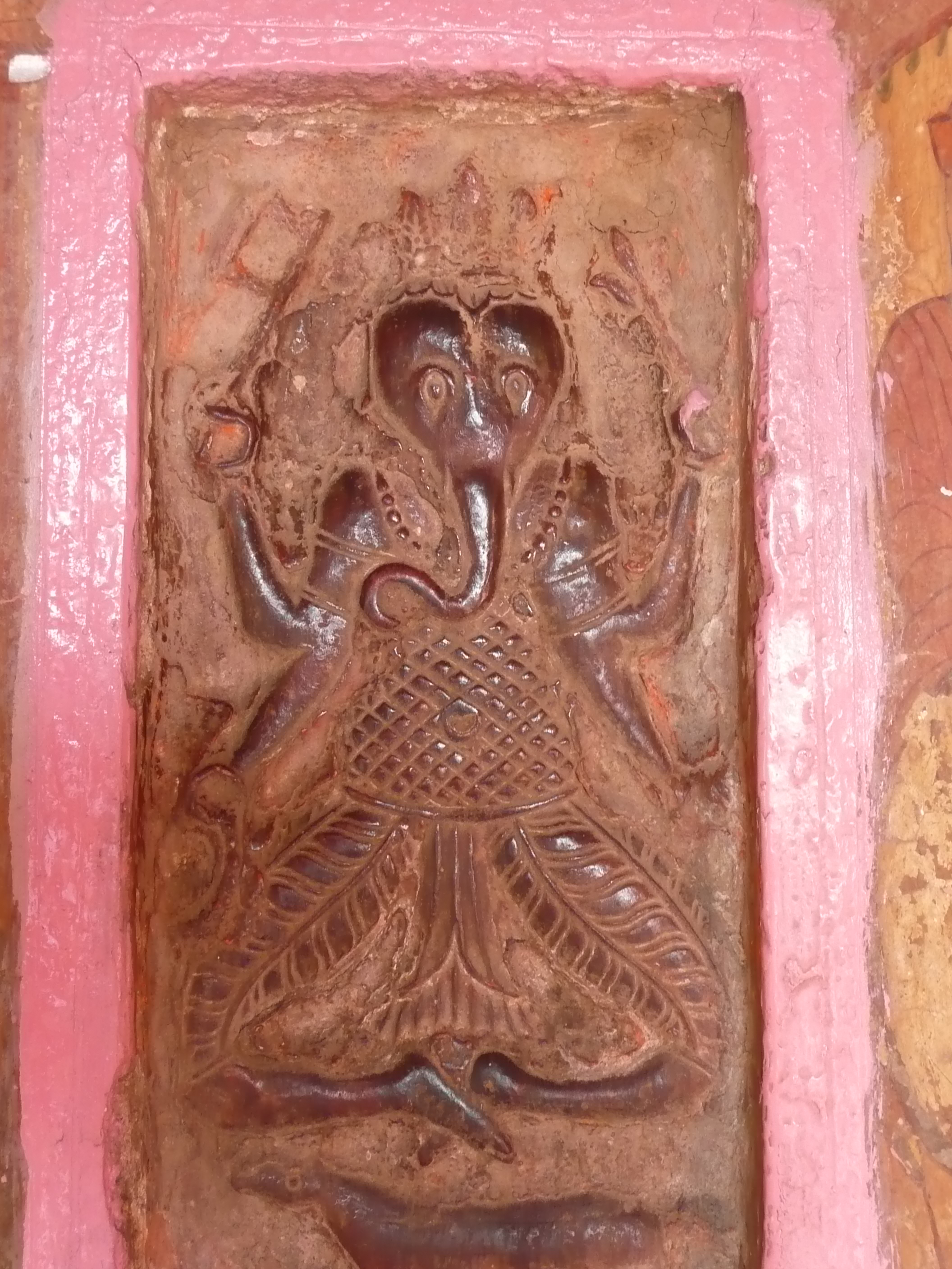 This is God Ganesh on entry wall of Old Shiva Mandir (Ancient Temple) from times of Mugal Emperor in Payal, Ludhiana, Punjab, India